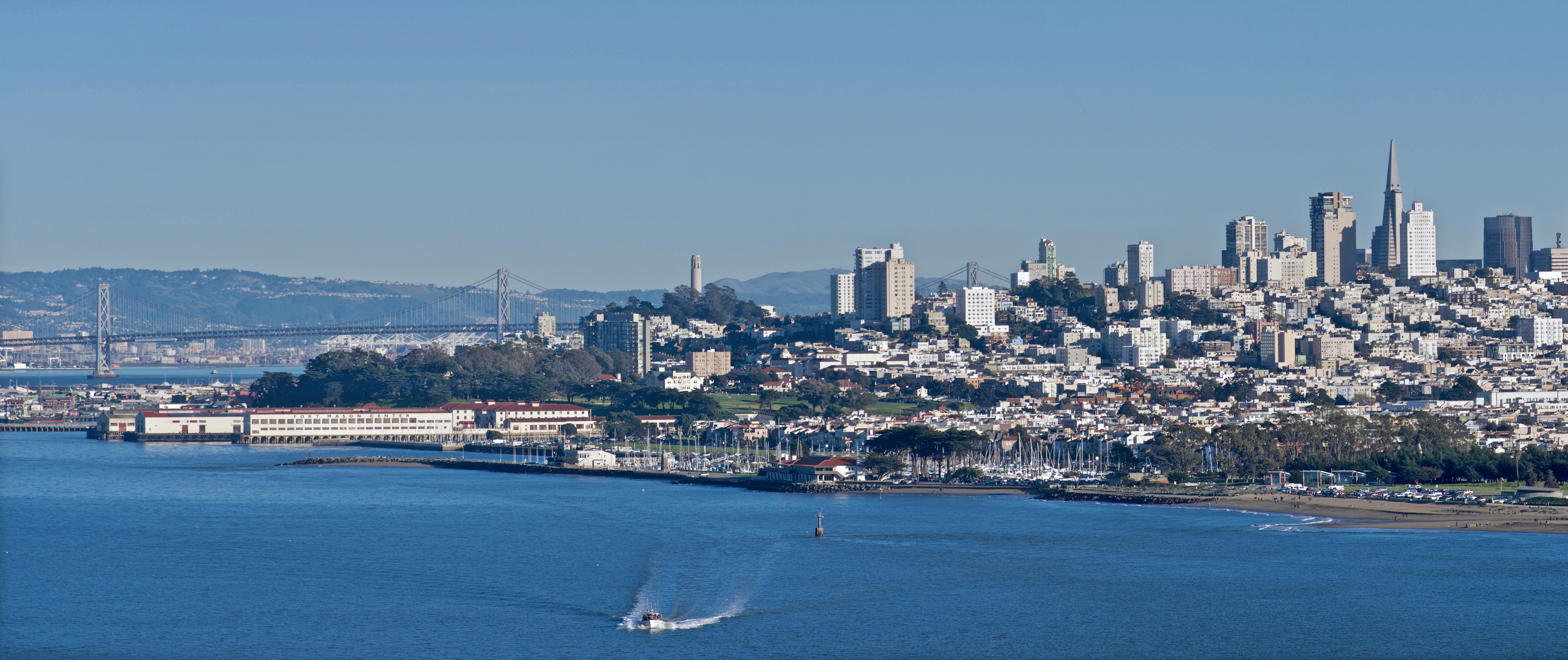 Downtown San Francisco seen from the Golden Gate Bridge.